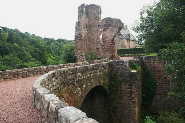 Rosslyn Castle The walls of the old castle and the newer house, built in 1622, within the old walls.